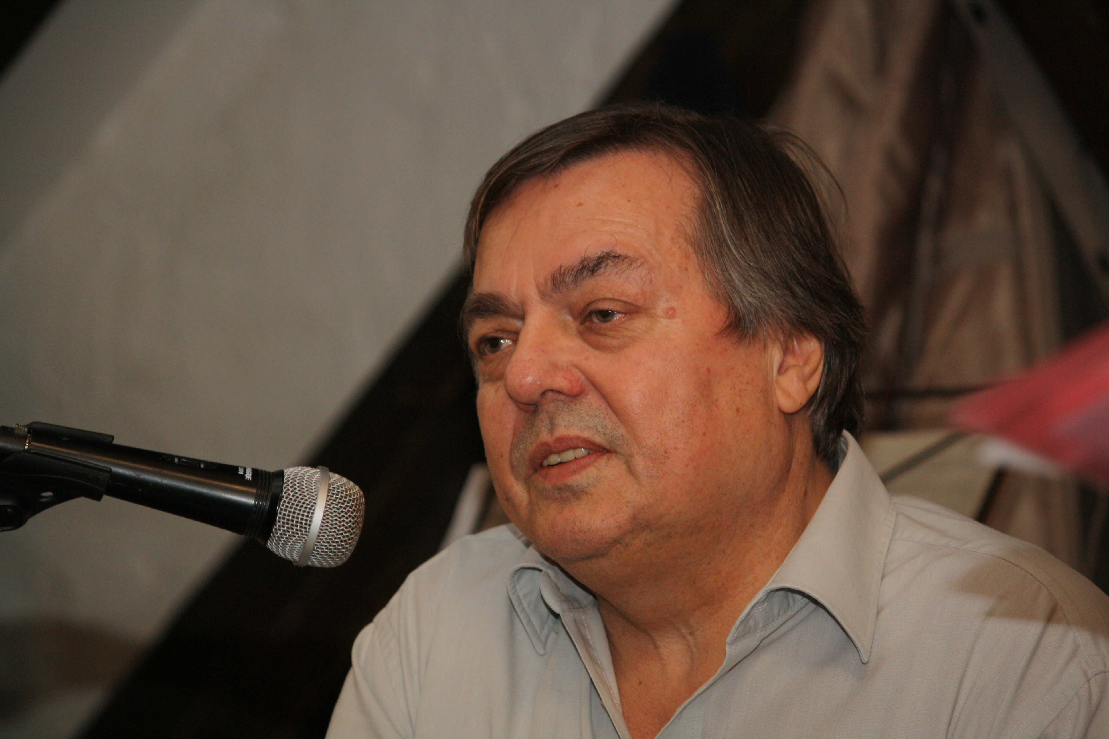 Slovenian writer Drago Jančar in Brno